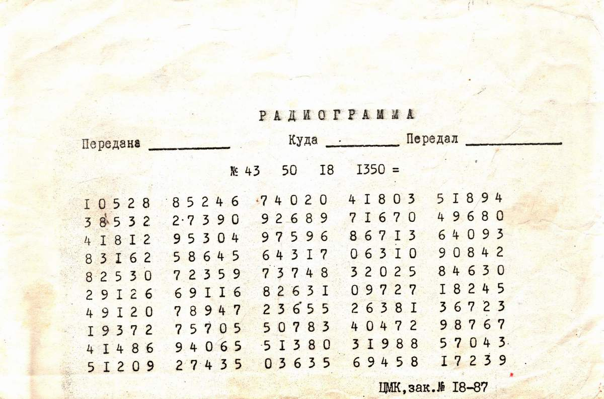 Radiogramm of figures. Was used for high-speed telegraphy trainings and competions in USSR.